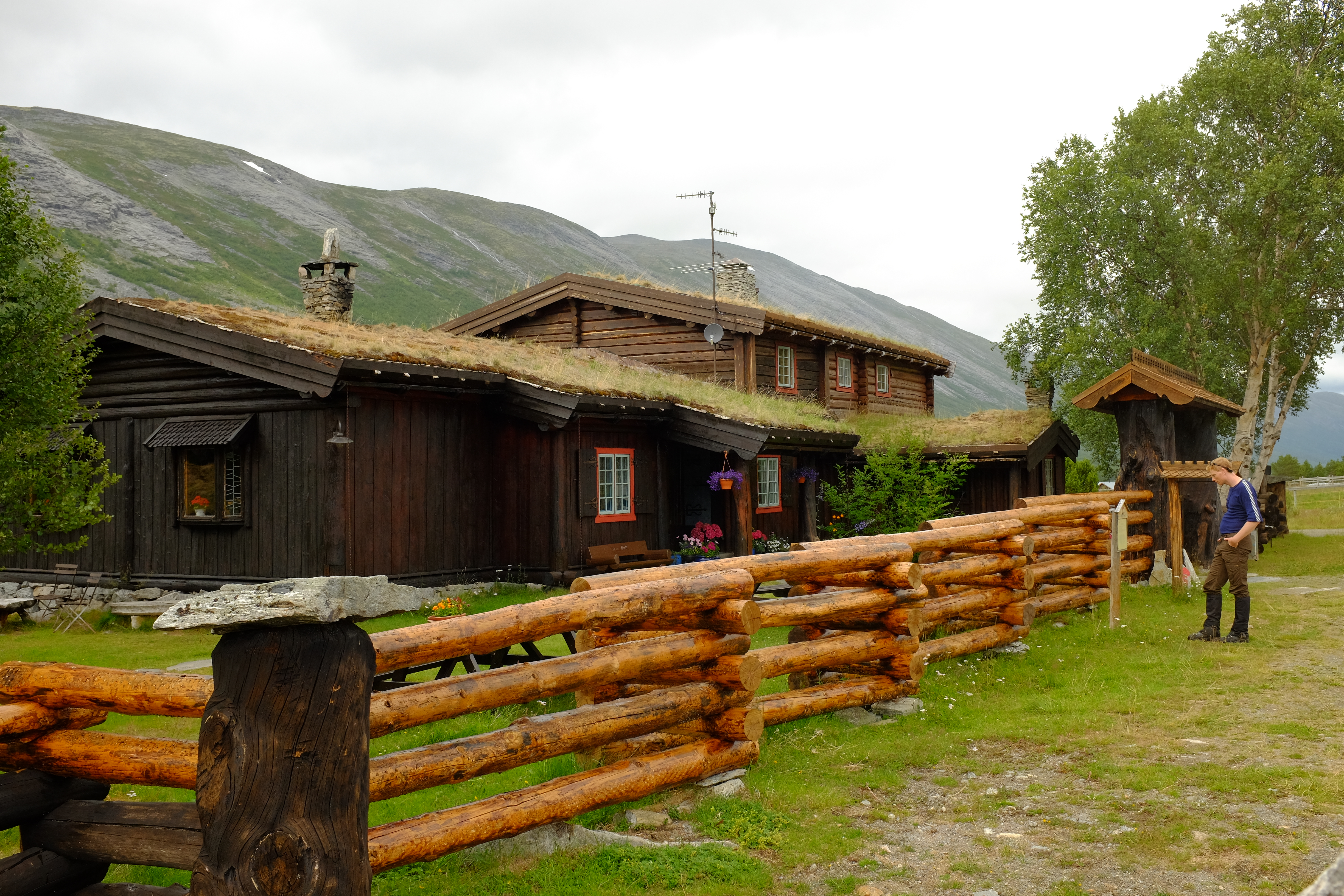 Sota Sæter (819 meters above sea level) is a staffed tourist cabin in the southern end of Lake Liavatnet at Breheimen in Skjåk municipality in Oppland.